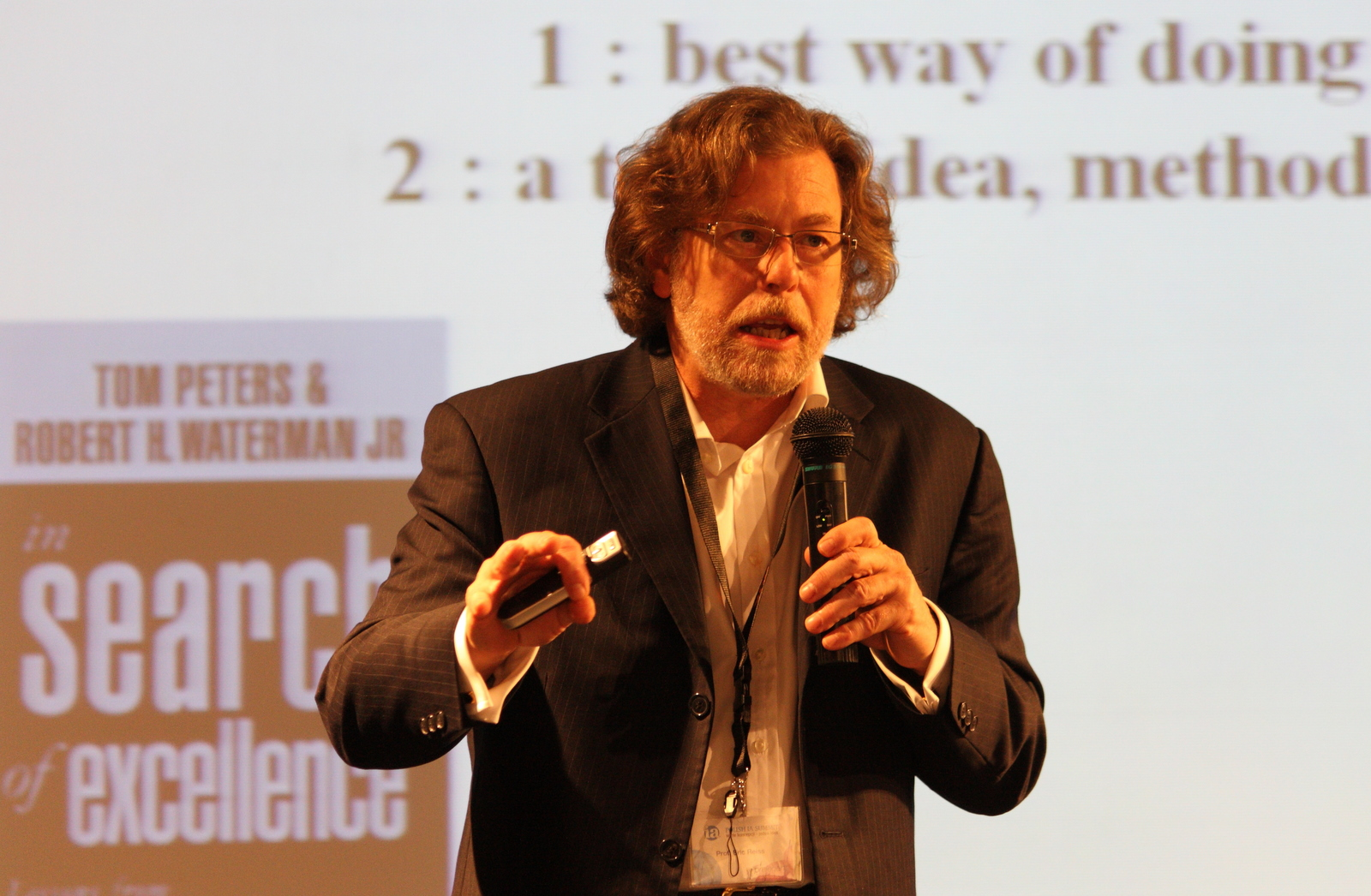 Eric Reiss during Polish IA Summit, 15 April 2010